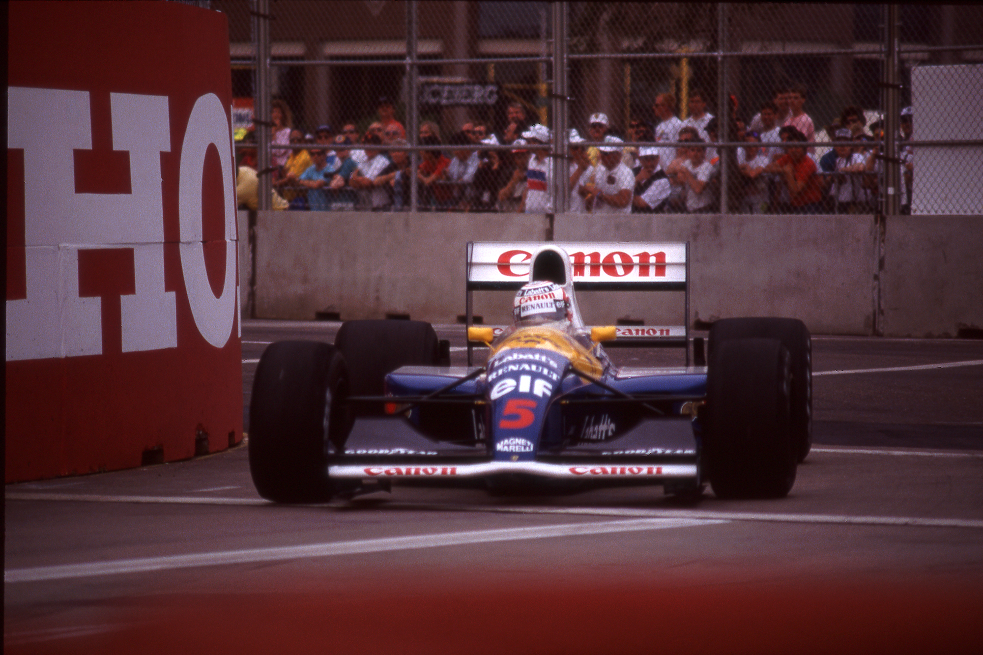 Nigel Mansell's Williams-Renault FW14 at the 1991 Formula One US Grand Prix at Phoenix, Arizona.